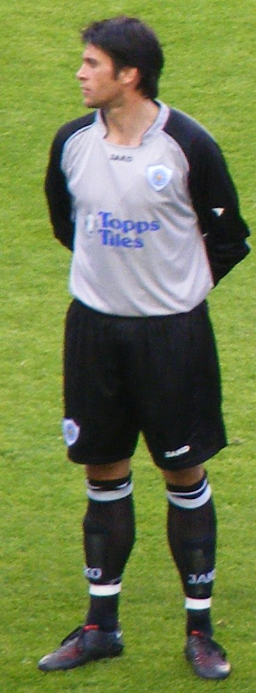 Paul Henderson